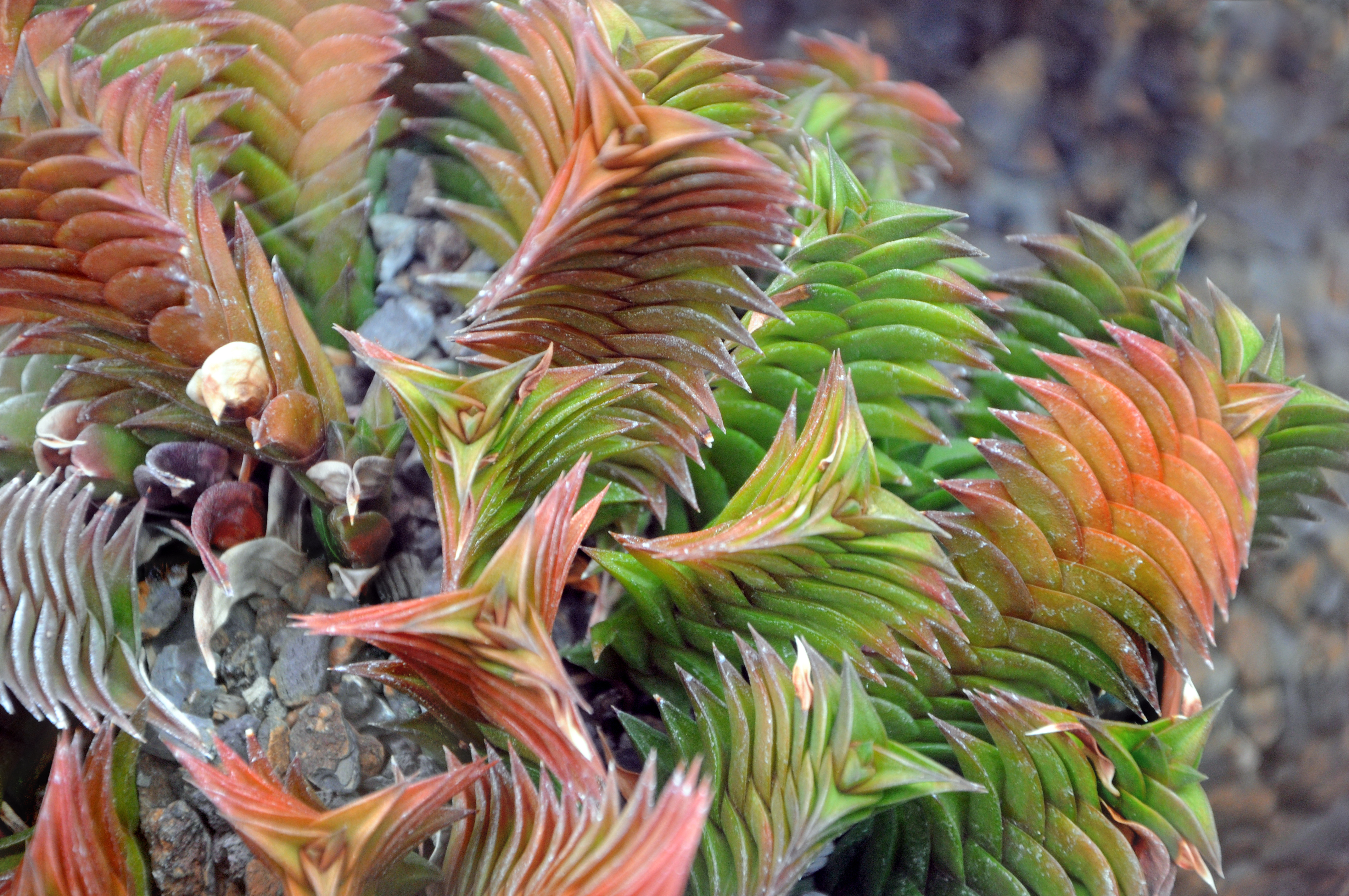 Haworthiopsis viscosa (syn. Haworthia viscosa)